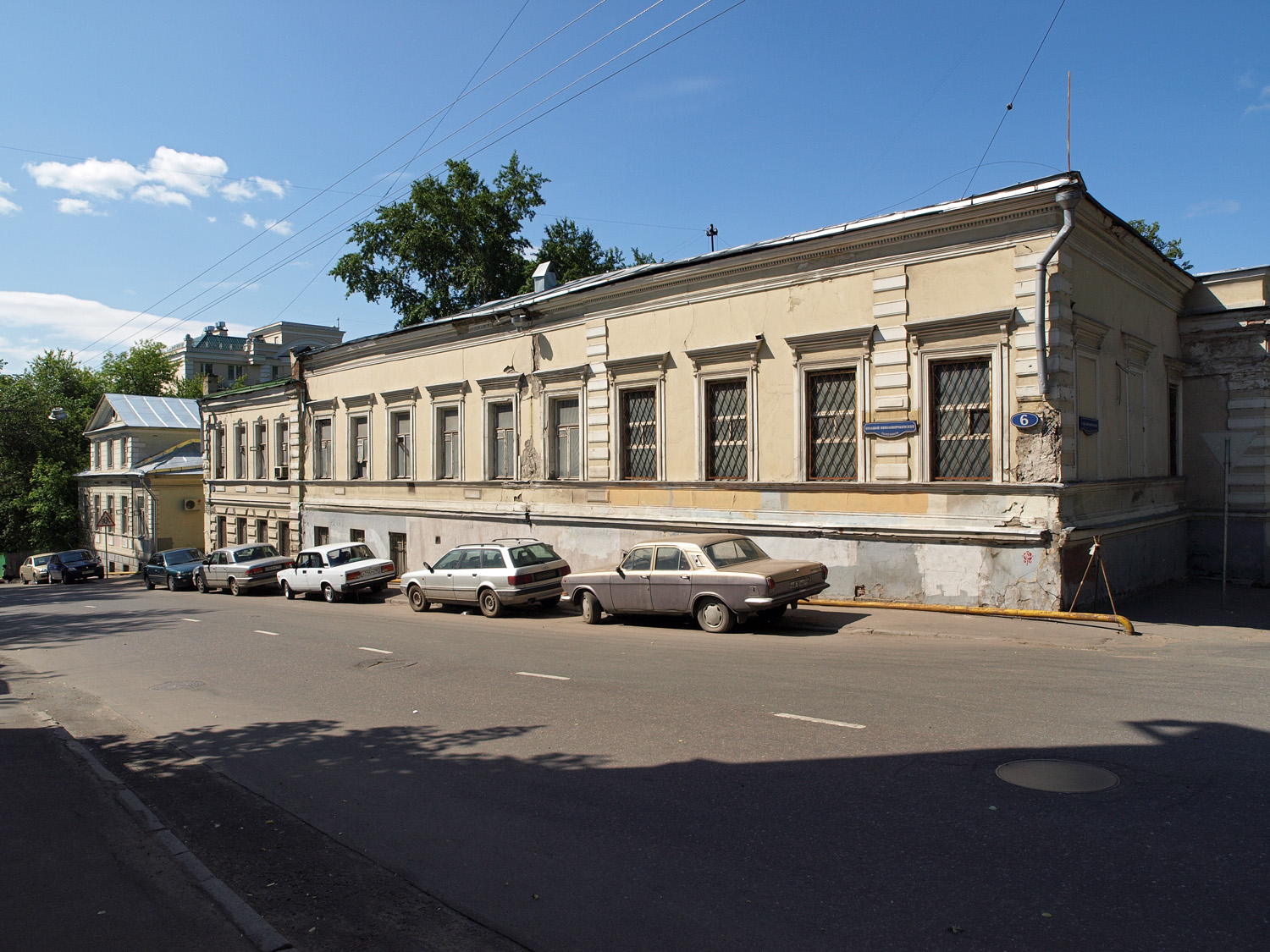 Bolshoy Nikolovorobinsky Lane, Moscow.